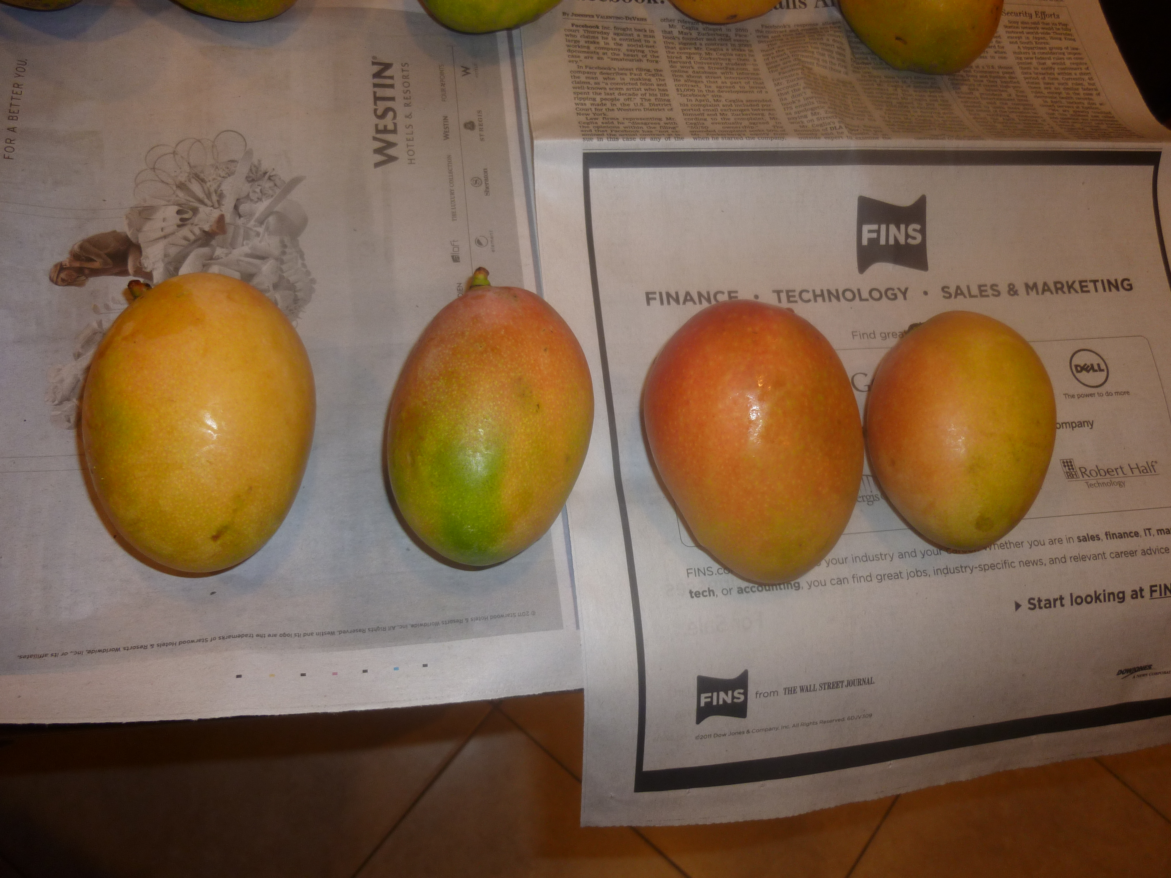 Photograph of 4 'Sunset' mangoes